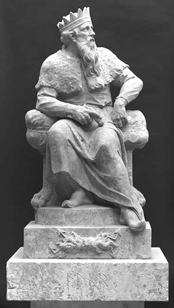 Thuner, about 1728-1730, John Michael Rysbrack V&A Museum no. A.10-1985 Place - England Techniques - Portland Stone Dimensions - Height 165.1 cm Source